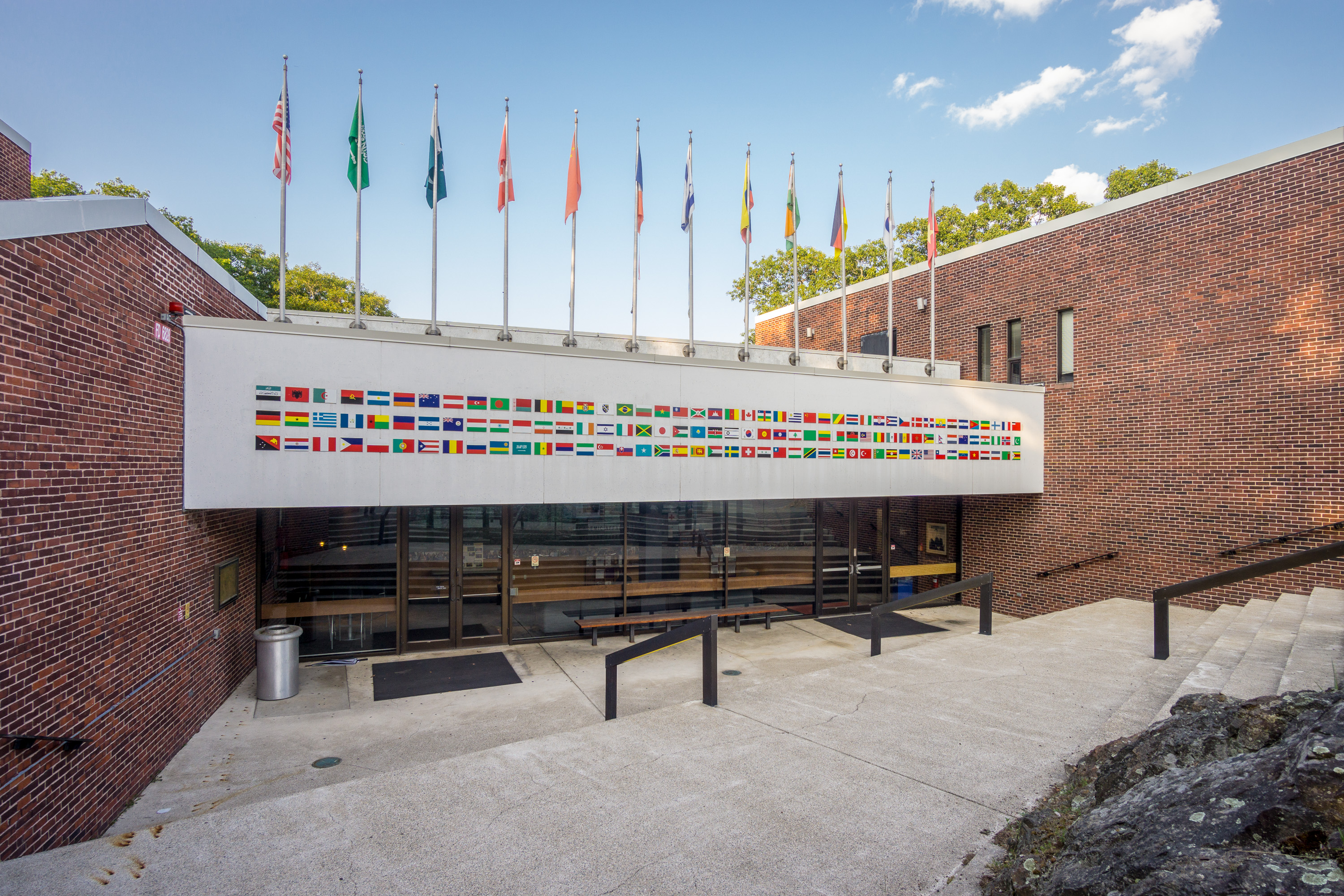 Sachar Center at the Brandeis International Business School